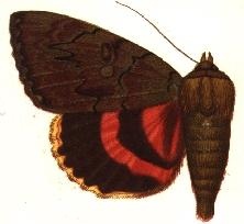 PLATE CXCV.